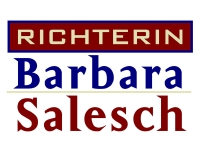 German TV program Logo: Barbara Salesch